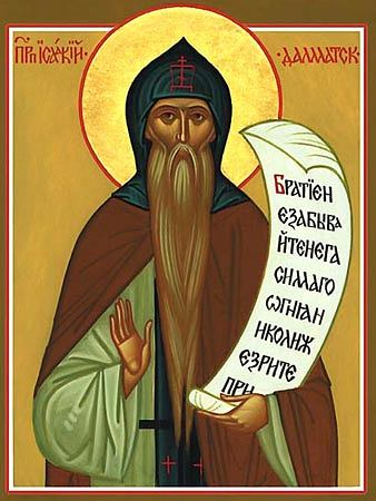 St. Isaac of Dalmatia (ortodox icon)